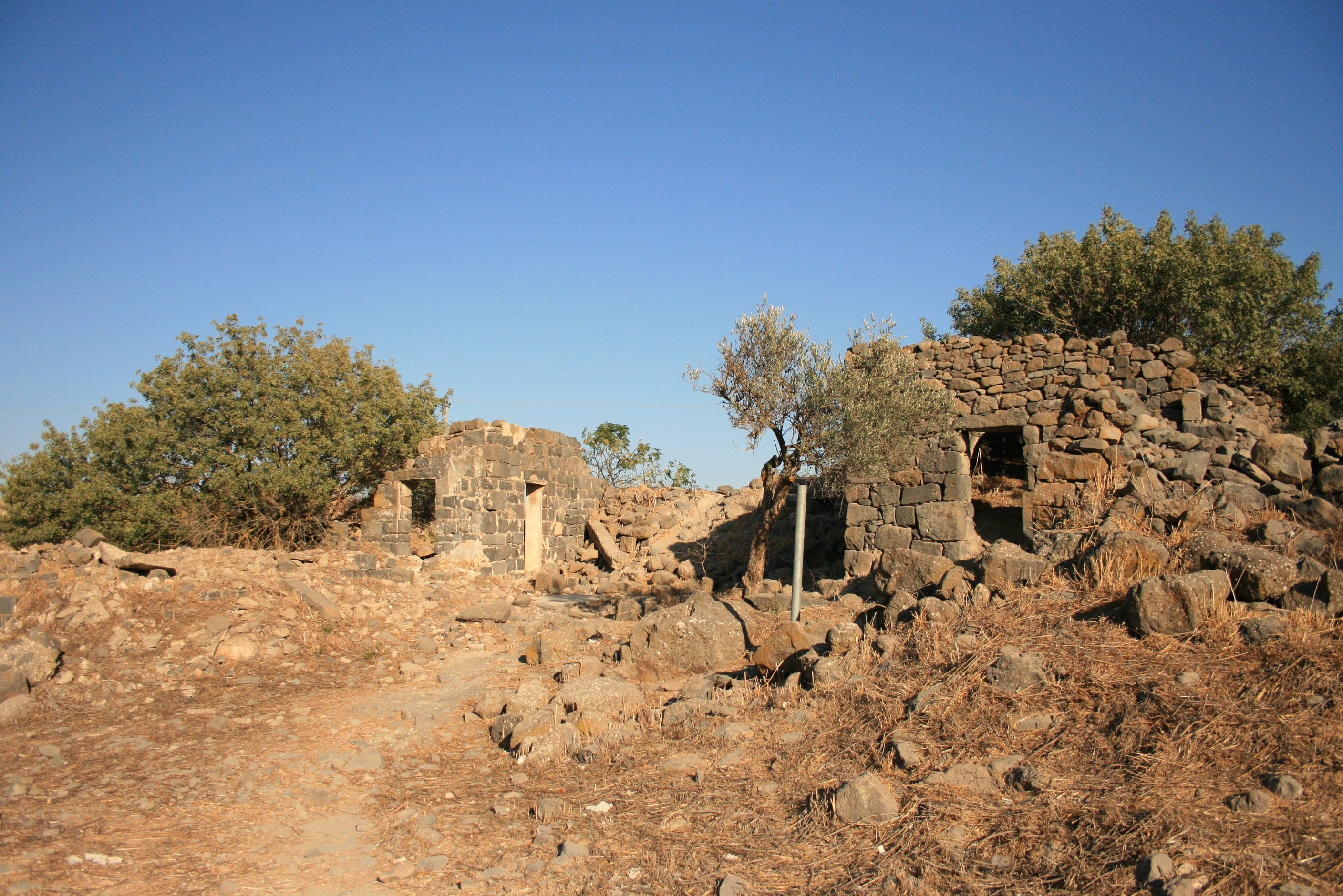 The former Syrian town of Fiq, southern Golan Heights.